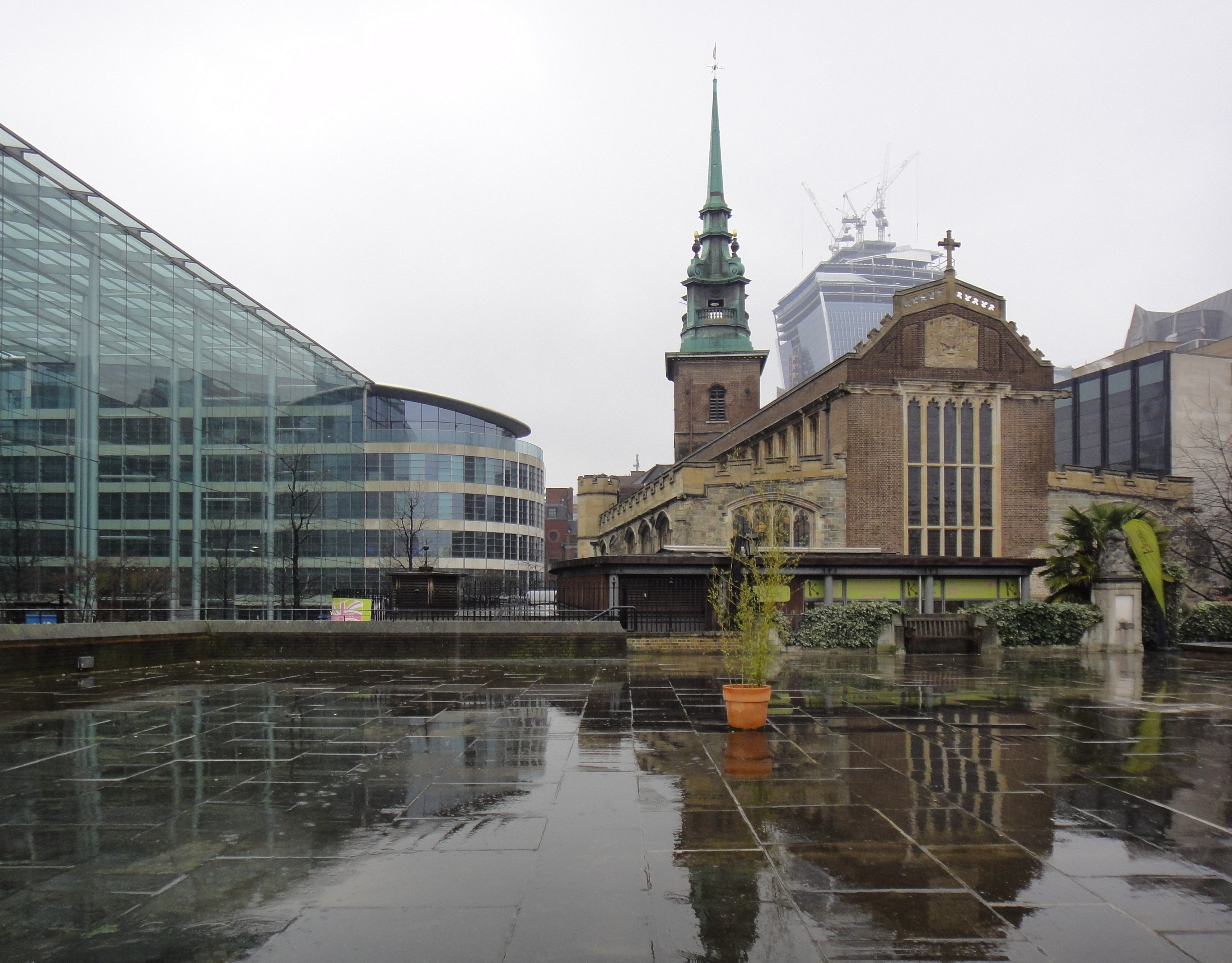 All Hallows baring and Tower Place on Tower Hill in Rainy, rainy London